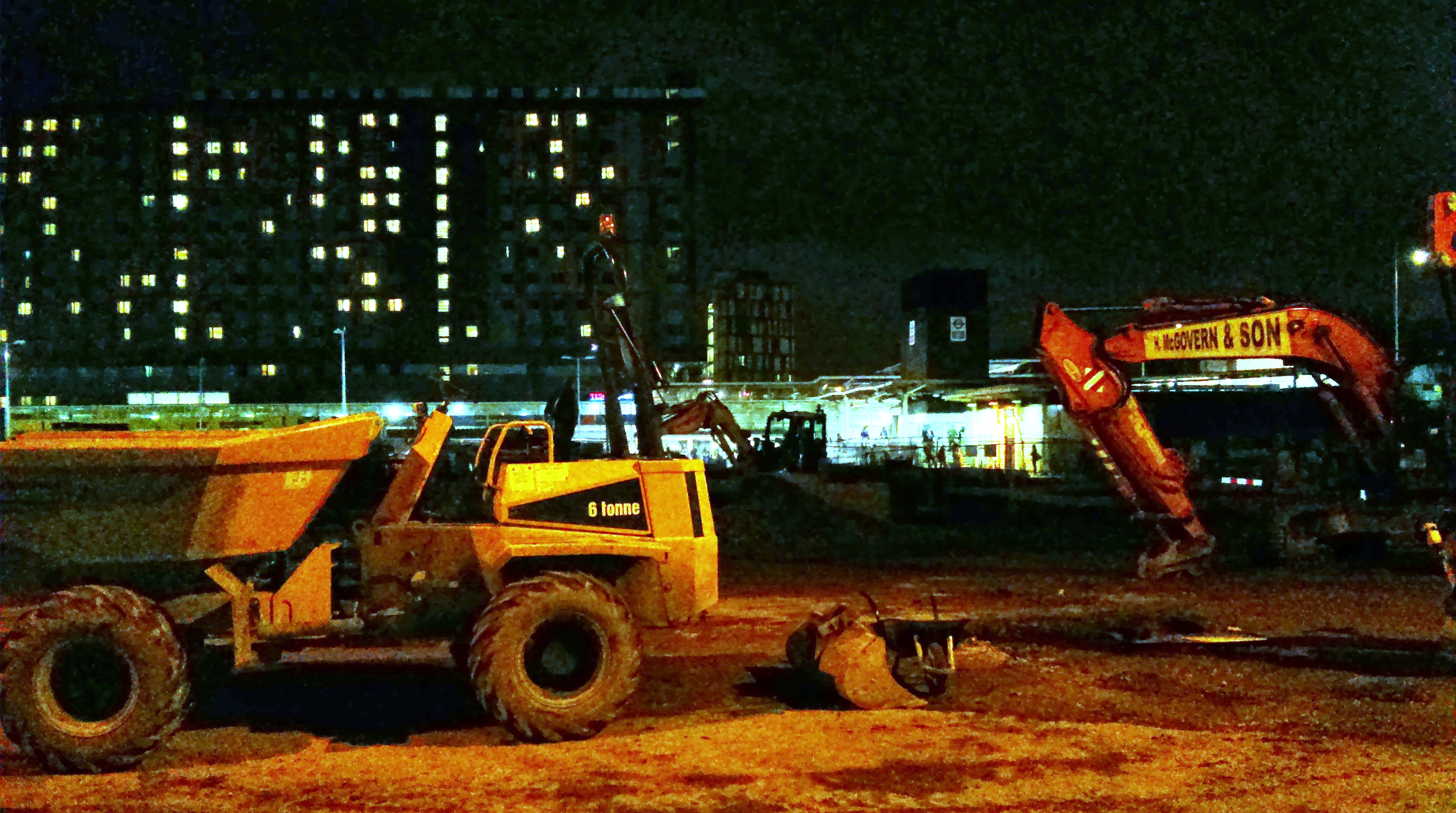 Photo of Tottehham Hale Station during redevelopment